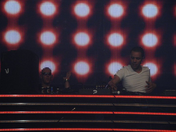 DJ Wildstylez performing at Intents Festival, June 4th 2011.